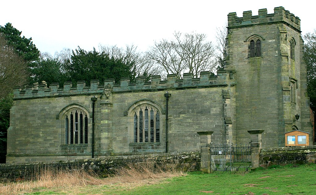 Church of St Saviour, Milton Rd, Foremark. A remarkable church, built in 1662, that retains most of its original furniture. Unfortunately shot on a rather gloomy day. Usually OPEN.